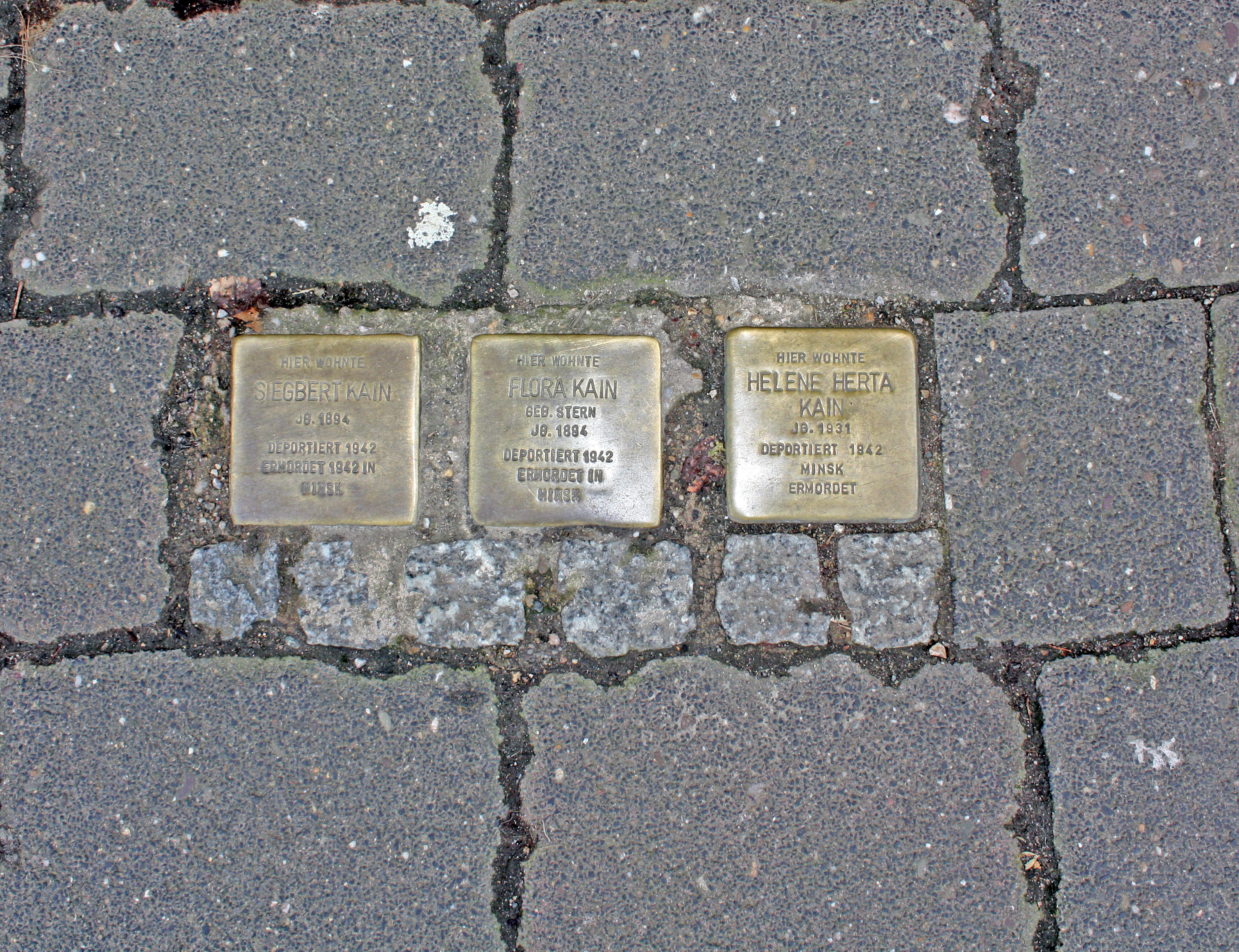 Three Stolpersteine for the Kain family in Lechenich, Germany, created and installed by German artist Gunter Demnig